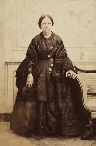 Infanta D. Isabel Maria de Bragança (1801-1876), daughter of King John VI of Portugal, and Regent of the Kingdom in 1826-1828.